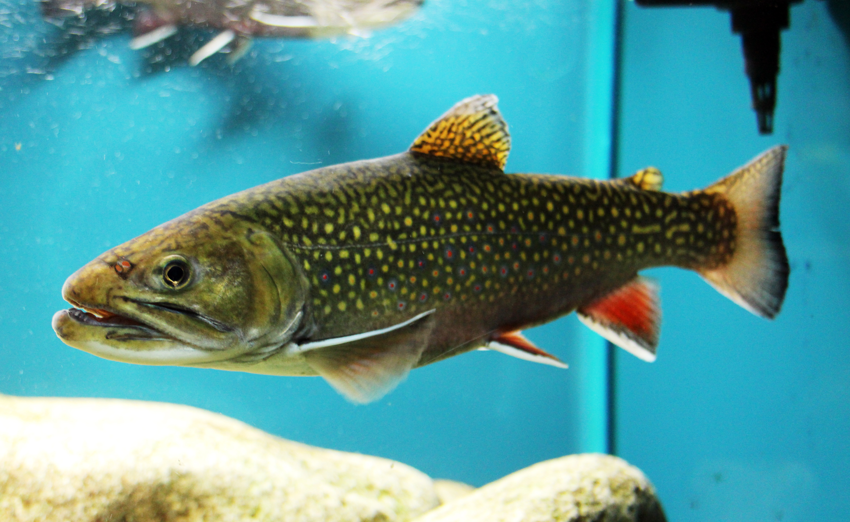 Brook trout on exhibition Subaqueous Vltava, Prague 2011, Czech Republic